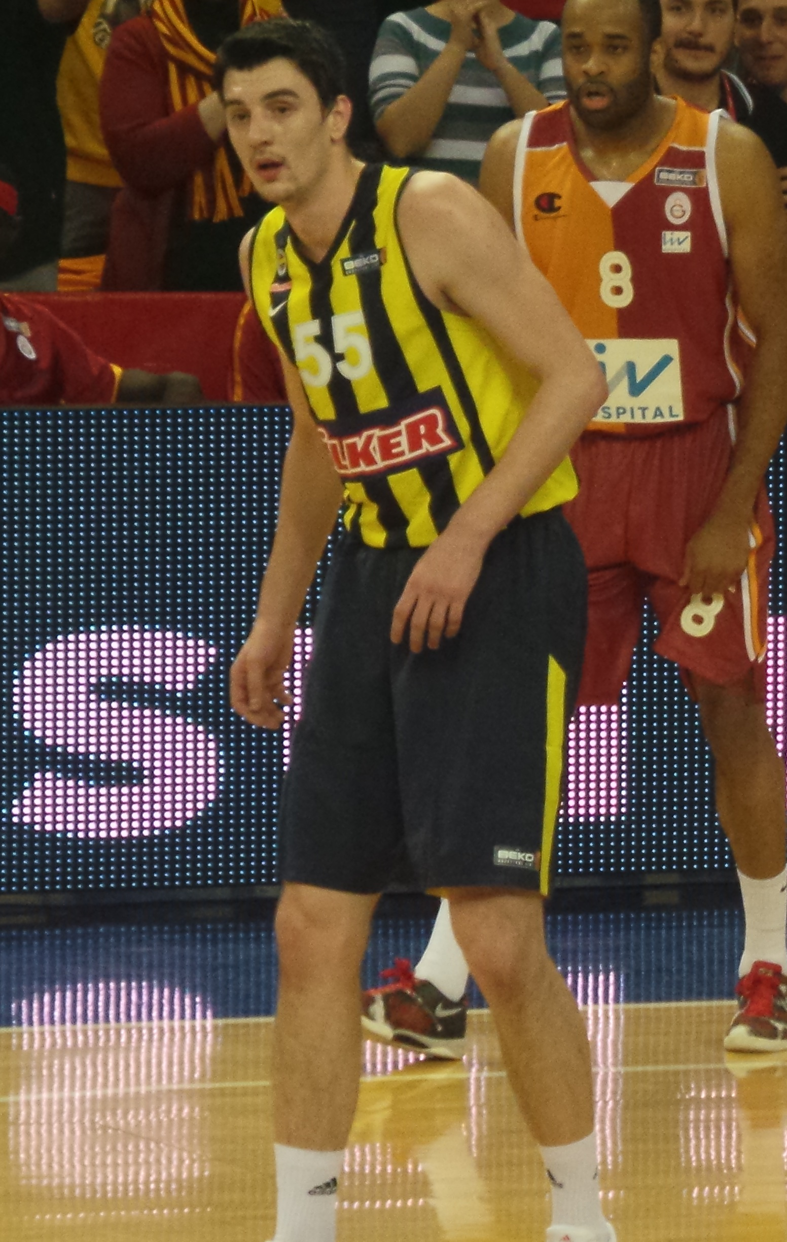 Emir Preldžić